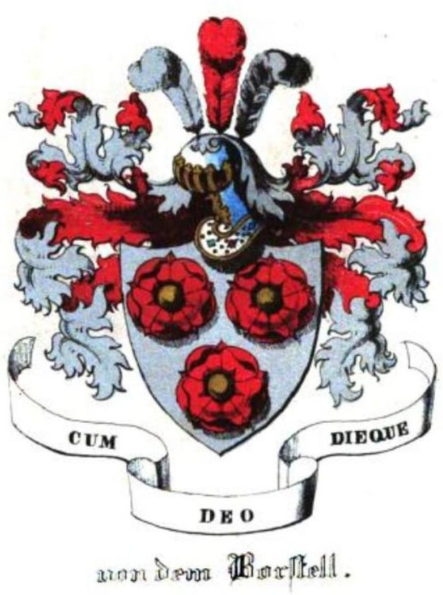 Von dem Borstell